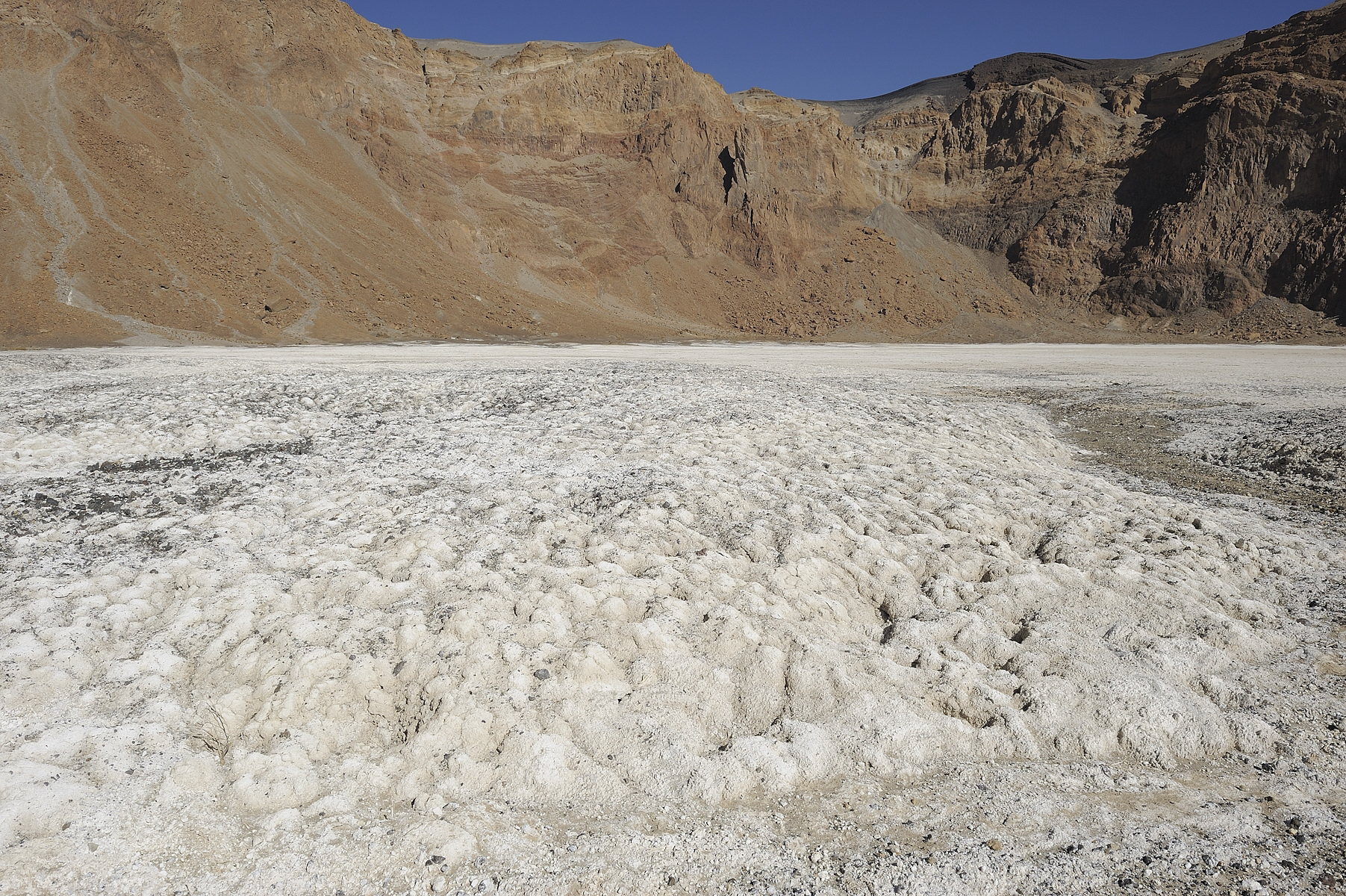 The inner crater of Mount Emi Koussi (Tibesti, Chad). Mineral precipitation on the ground is visible.